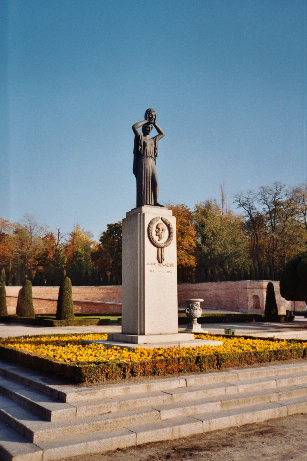 Monument to Jacinto Benavente (1866–1954) in the Retiro Park (Jardines del Buen Retiro) in Madrid (Spain). Sculpted by Victorio Macho (1887–1966) and built in 1962. Bronze statue is an allegory of Theatre.